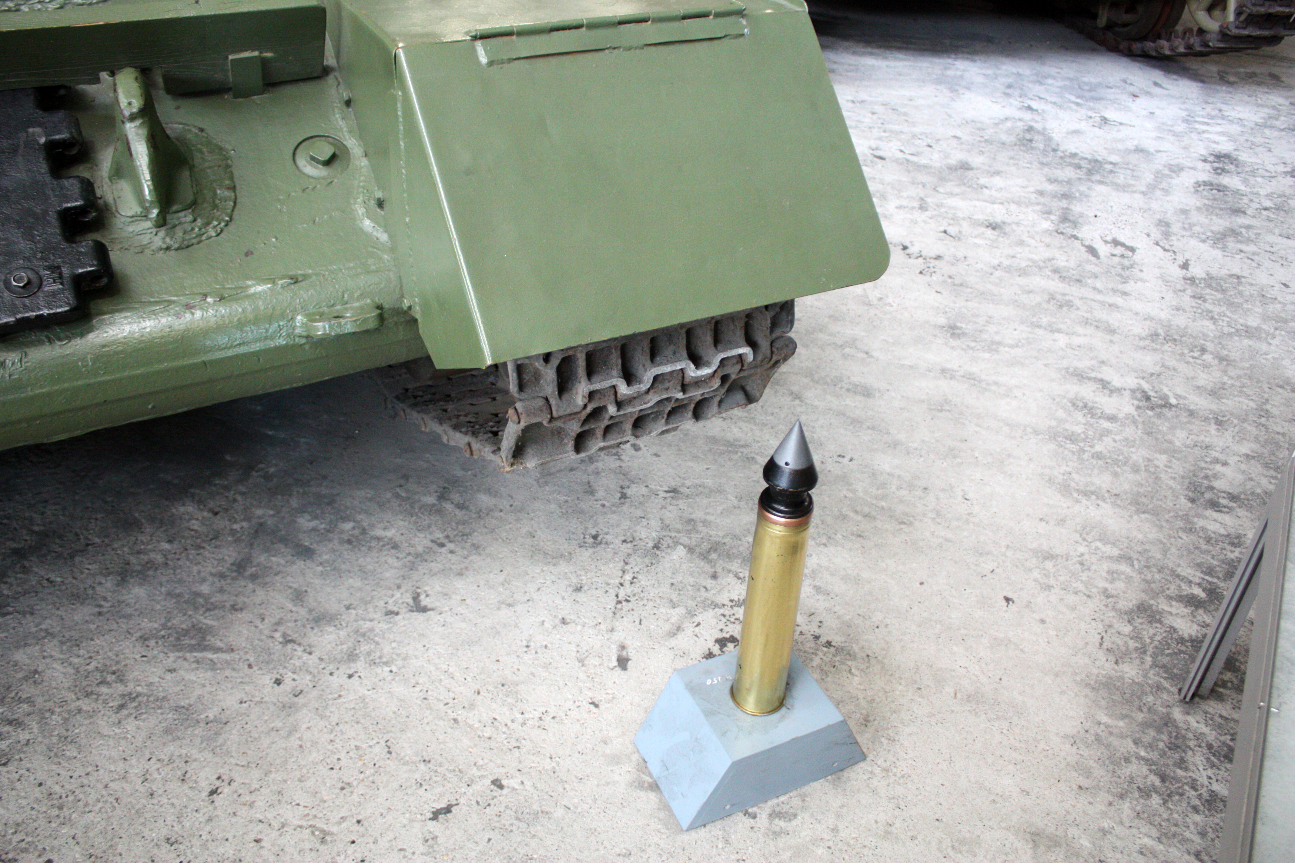 German Tank Museum, Munster. BR-354P APCR round for Soviet F-34 tank gun, in front of a T-34 tank.